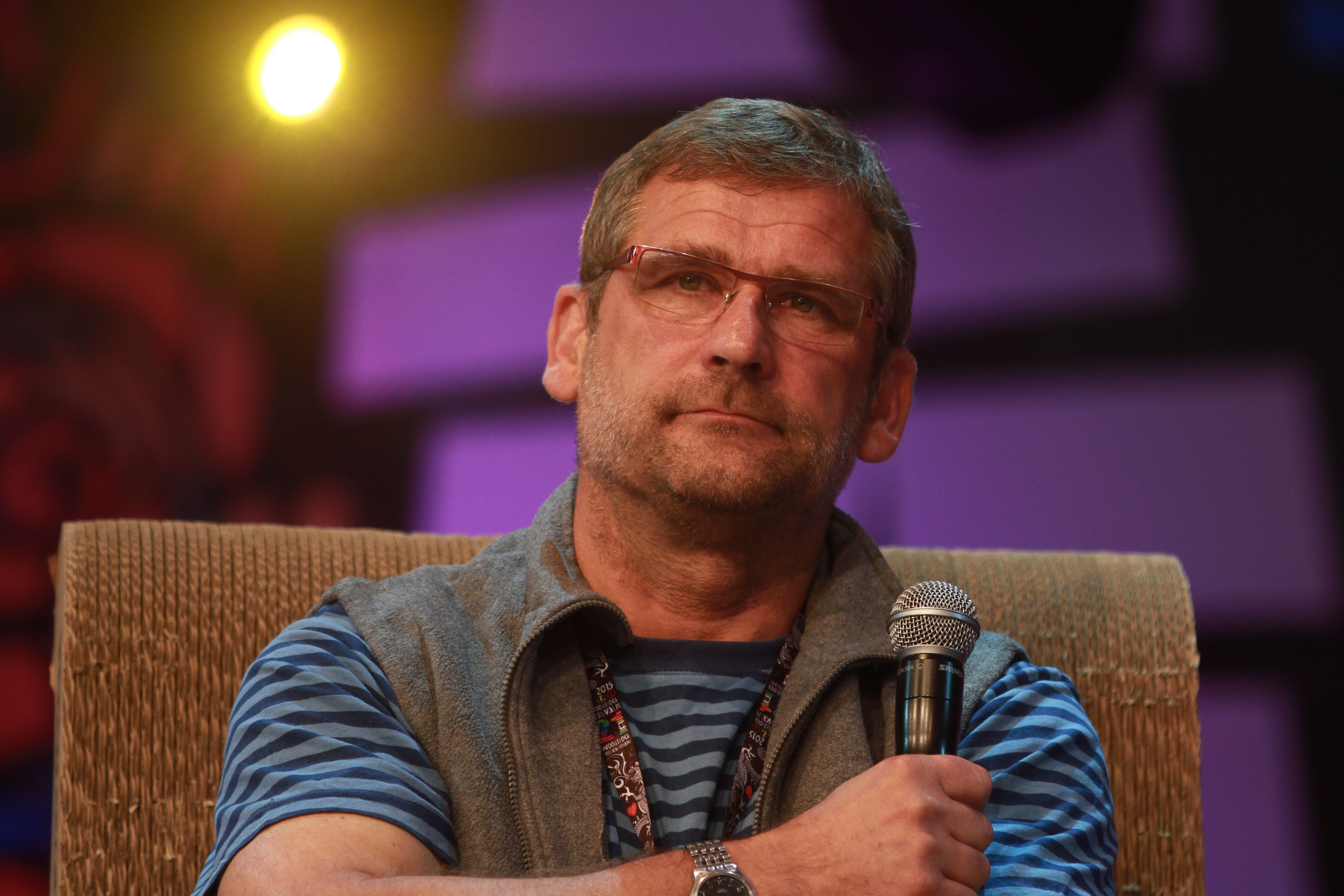 Przystanek Woodstock in 2015.